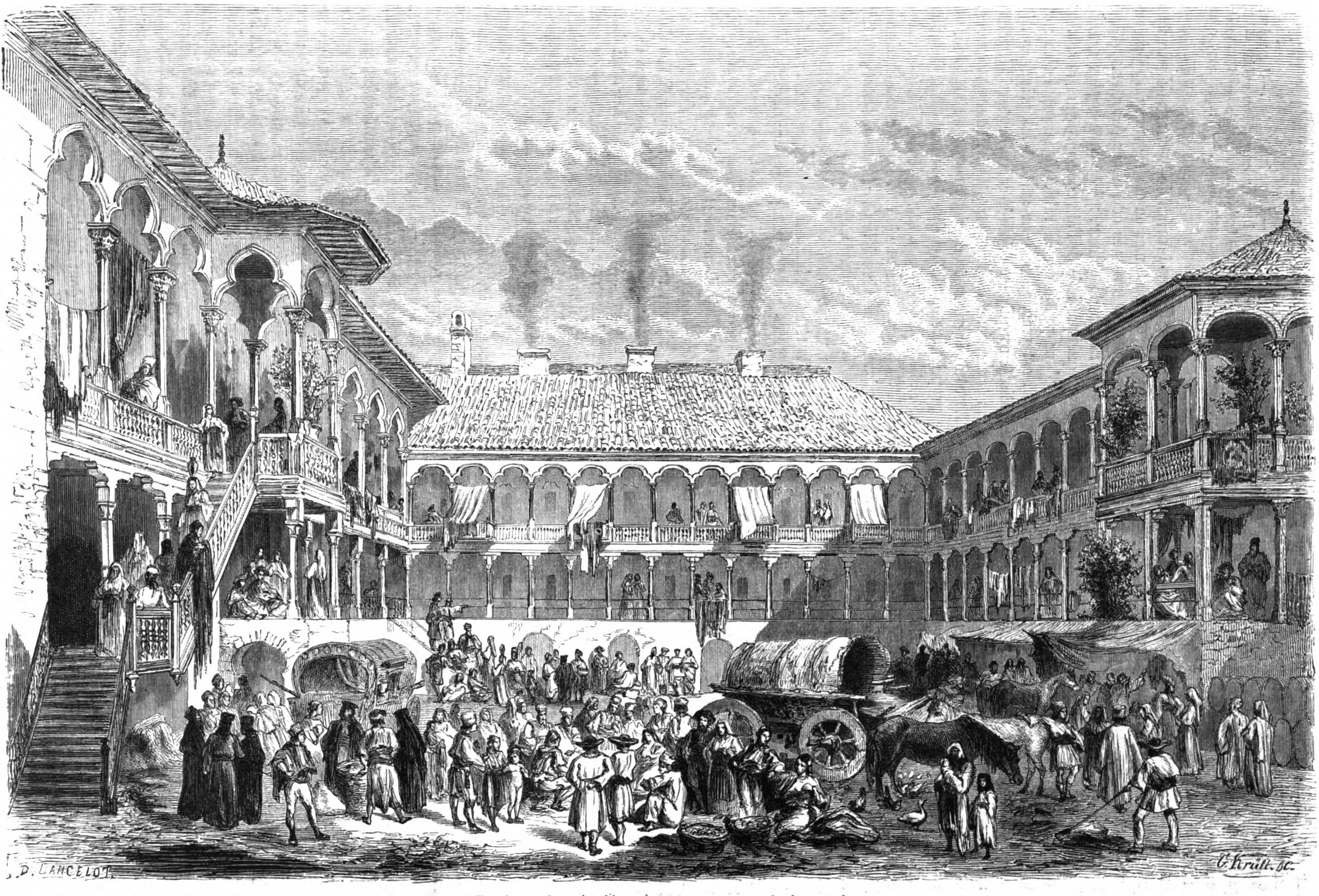 Manuc's Inn (Hanul Manuc) in 1860 — in Bucharest.